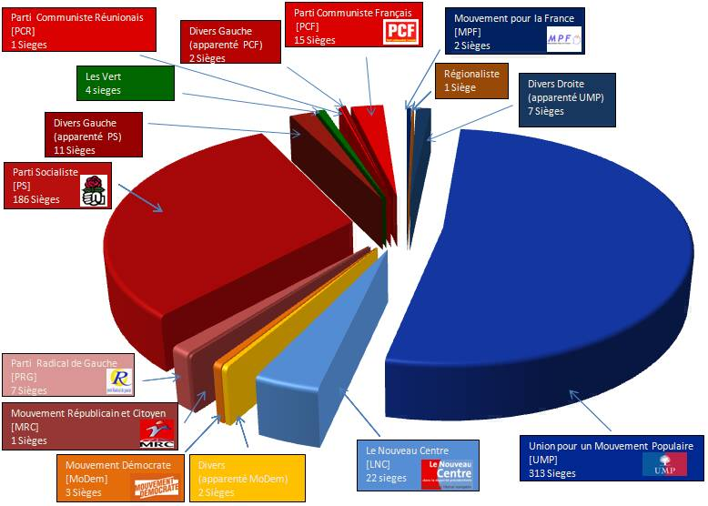 Composition of the French National Assembly following the June 2007 legislative elections